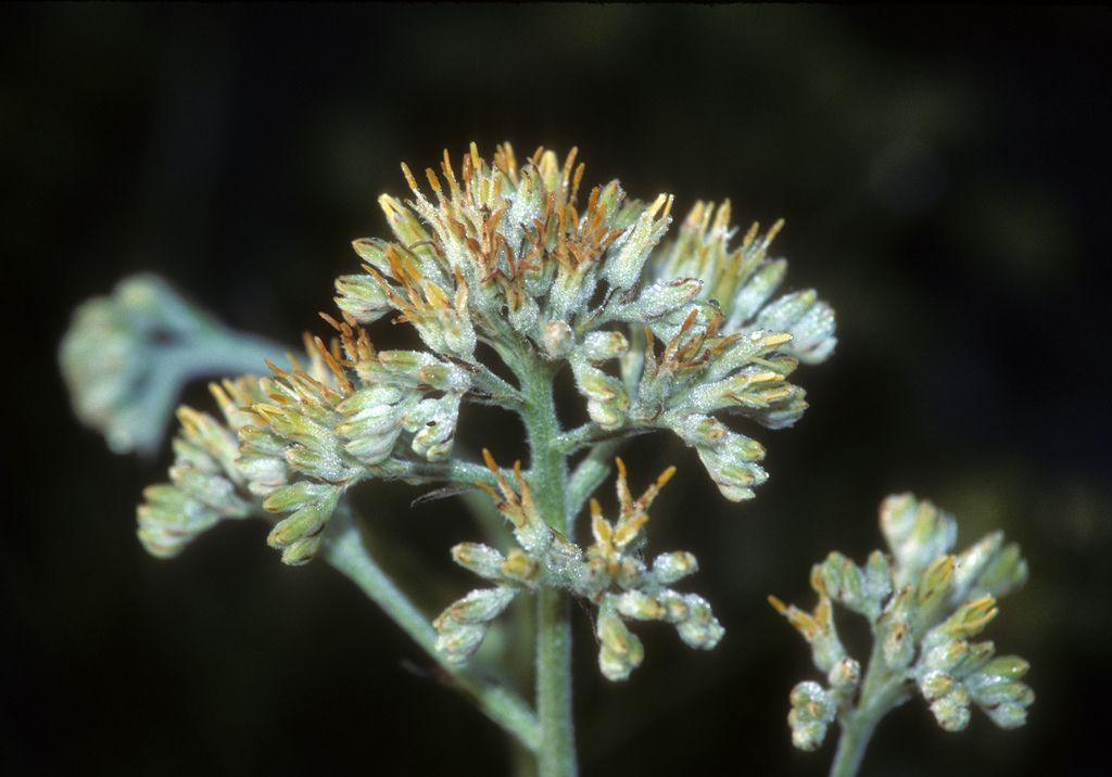 Lachnanthes_caroliniana.